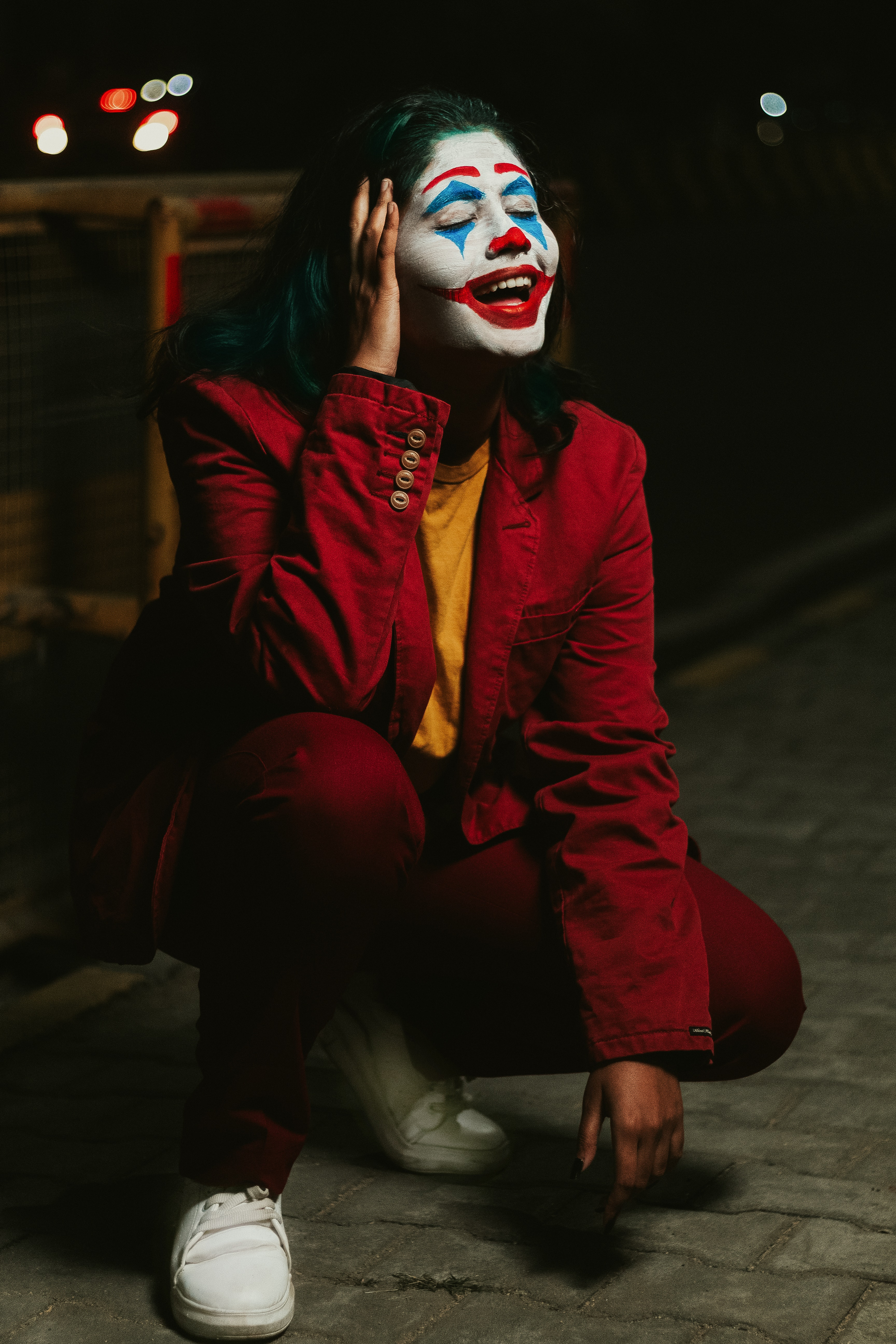 Shallow Focus Photo of Person in Red Coat With Clown Face Paint